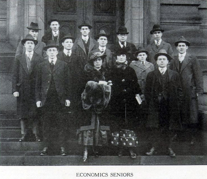 A group photo of the 1916 senior class of the School of Economics, forerunner of the Joseph M. Katz Graduate School of Business at the University of Pittsburgh. In the front row are the school's first two female graduates, Florence Edith Wallace (left center) and Edith London (right center).